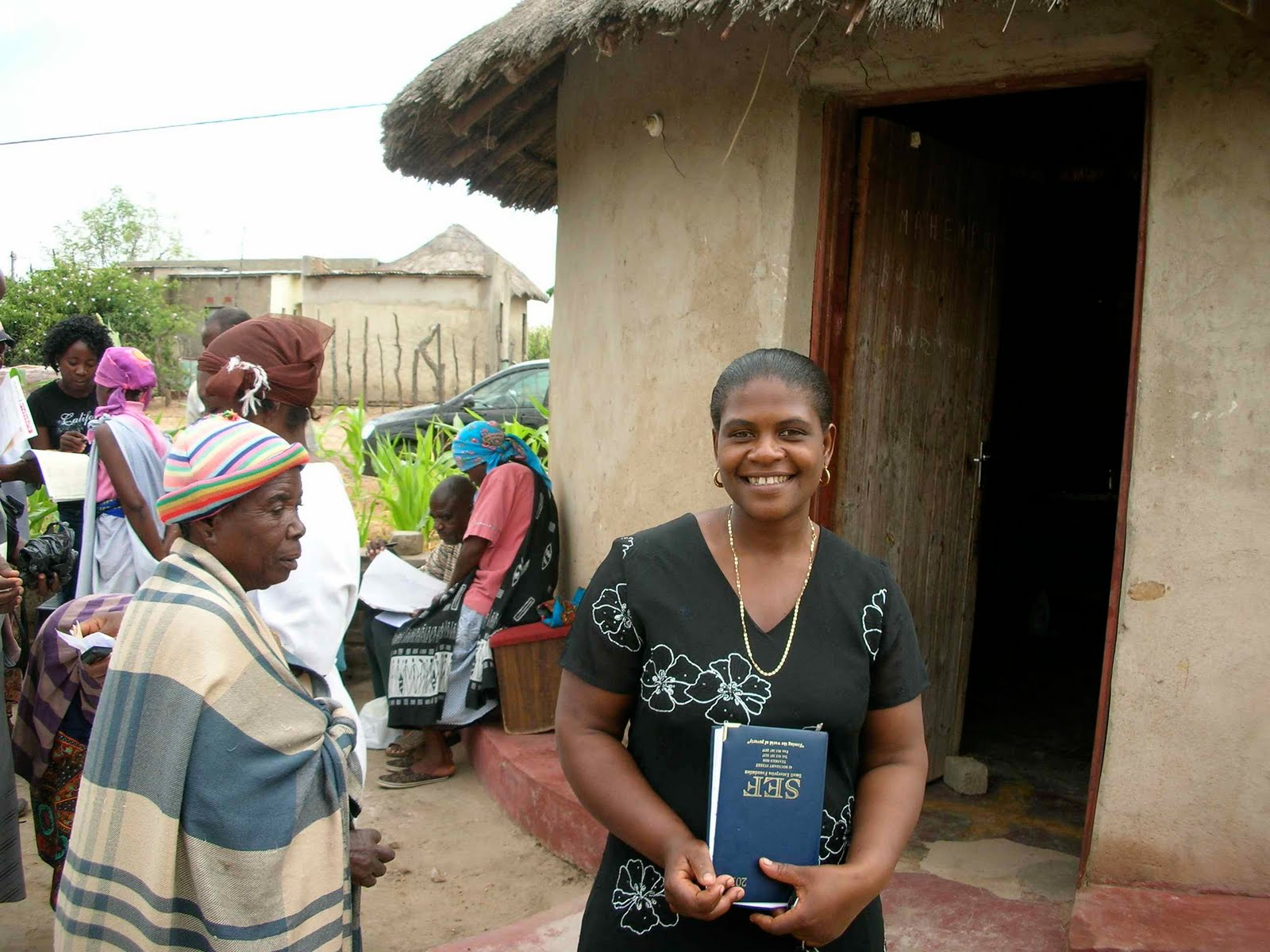 Loan officer. From the GiveWell visit to NGO The Small Enterprise Foundation in Tzaneen, South Africa. February 2010. More information.